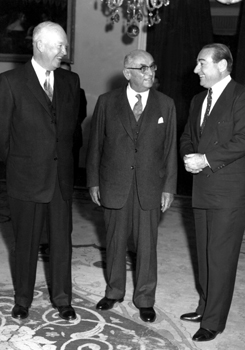 President Dwight D. Eisenhower meets with President Celal Bayar and Prime Minister Adnan Menderes at the Presidential Residence in Çankaya (December 1959). Photo courtesy of the Eisenhower Presidential Library.